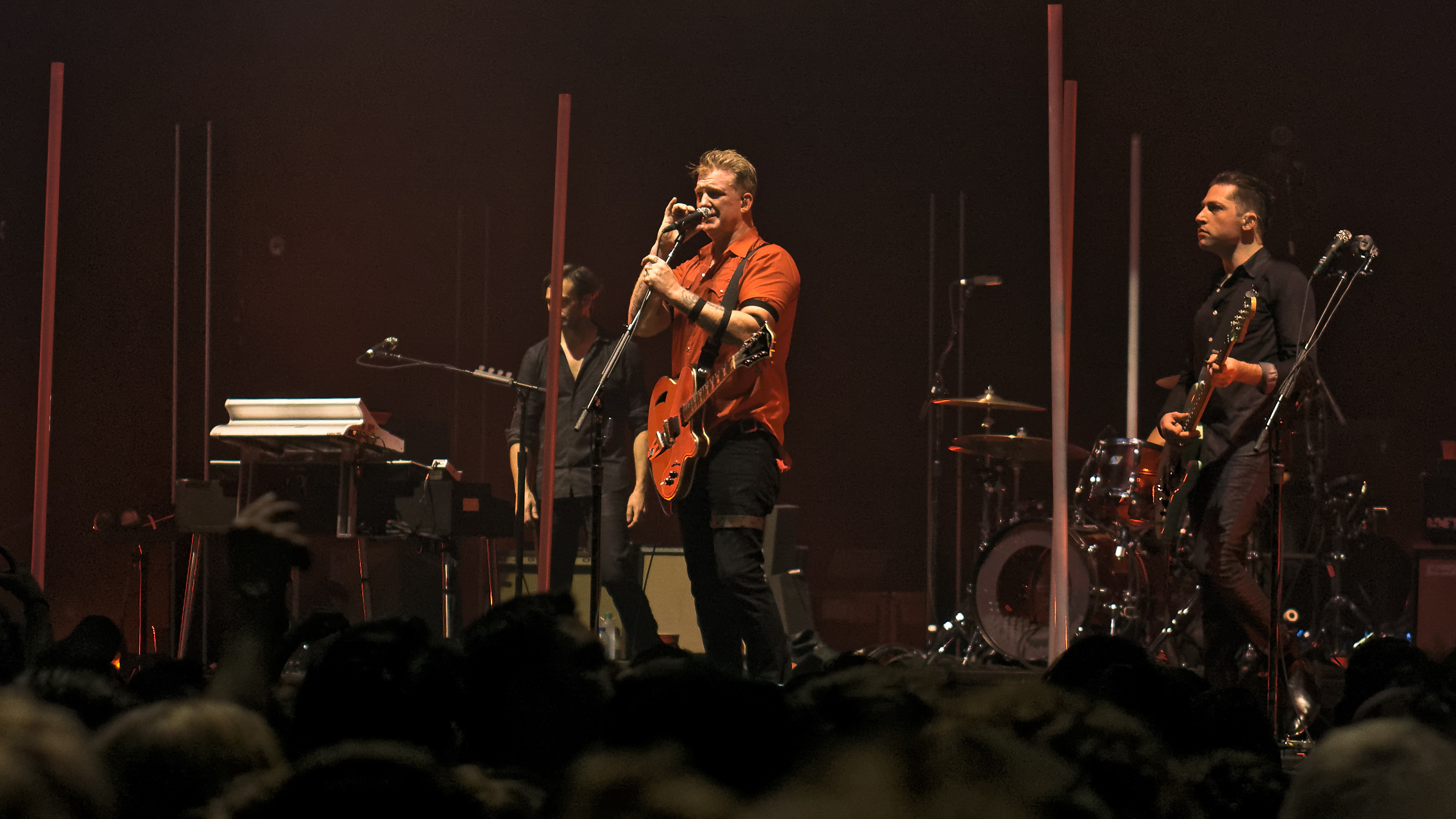 QOTSAWembley181117-50